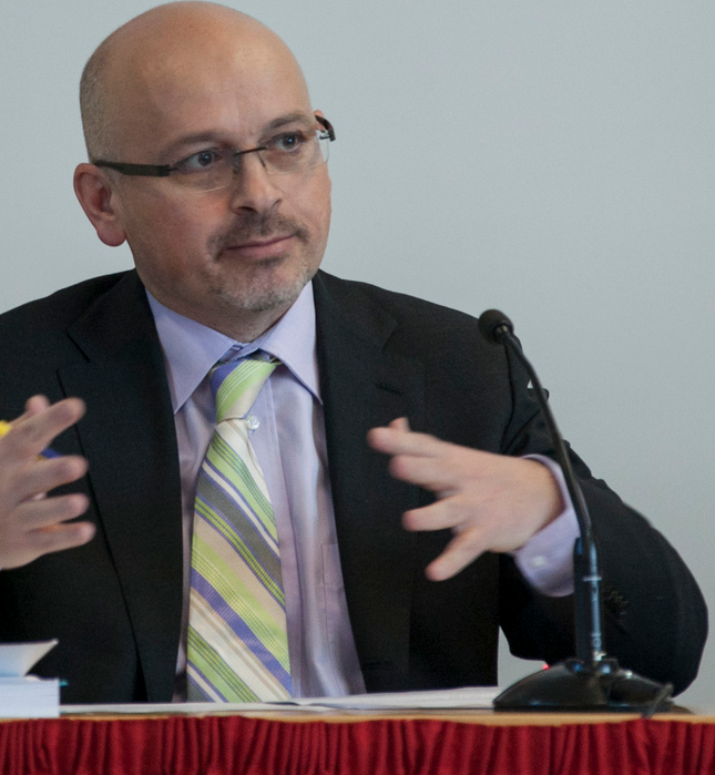 Ambassador Laura E. Kennedy spoke about her experience using Twitter at the Geneva Center for Security Policy February 28, 2013 as part of a panel on the Transformation of Diplomacy with Ambassador Paivi Kairamo of Finland and Dr. Jovan Kurbalija (pictured), Director of DiploFoundation.